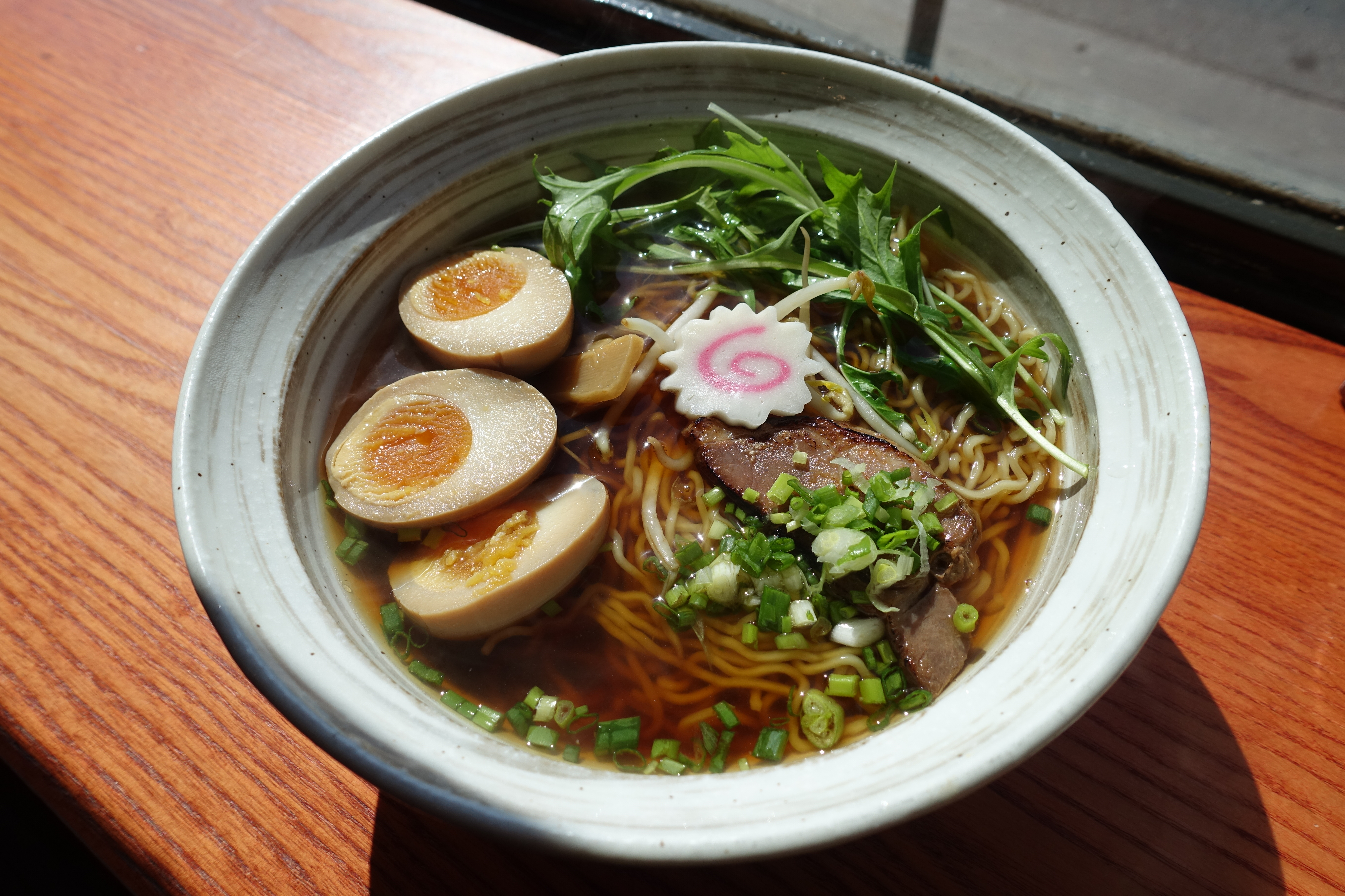 A common use of soy sauce is to put it in ramen noodles.